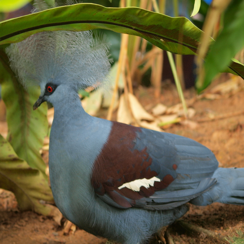 A Western Crowned Pigeon on this island of Sentosa, Singapore.